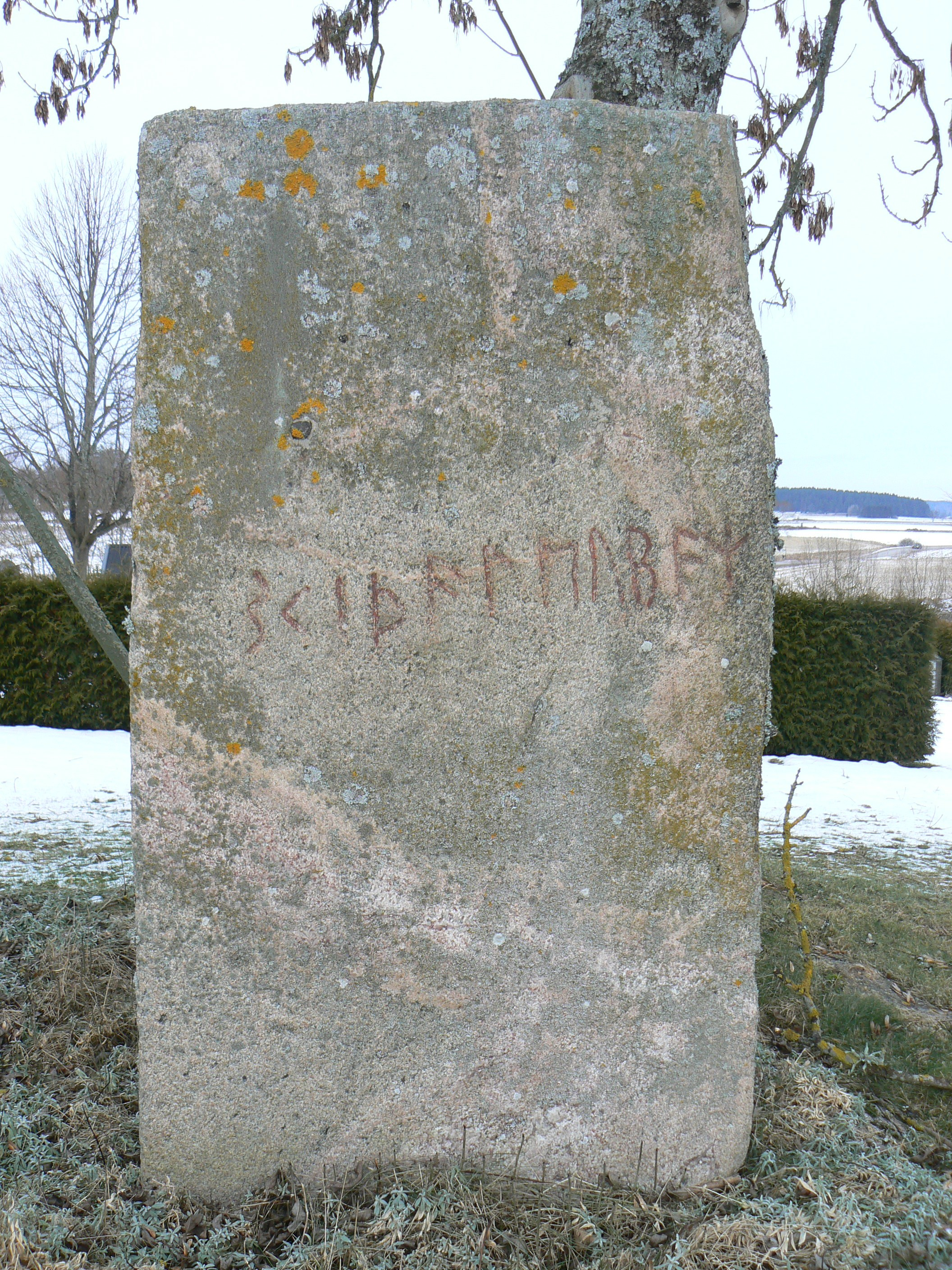 Östergötlands runinskrifter 171. Runestone with an inscript rom the 5th or 6th century, runes from the old 24-type futhark. Located in Skärkind, Östergötland.